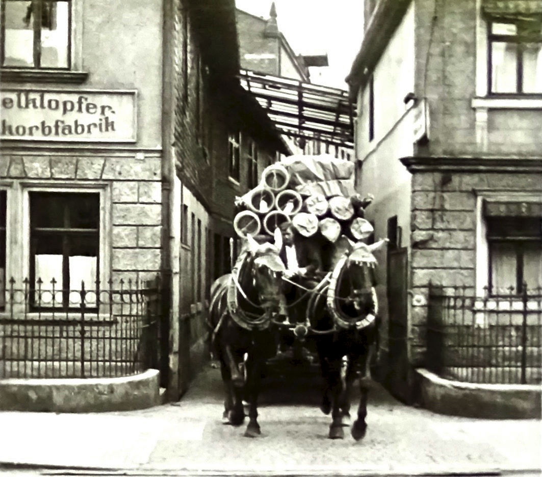 Raw material for the furniture industry, provided by D. Bamberger Lichtenfels (DBL) in Upper Franconia, Bavaria, Germany